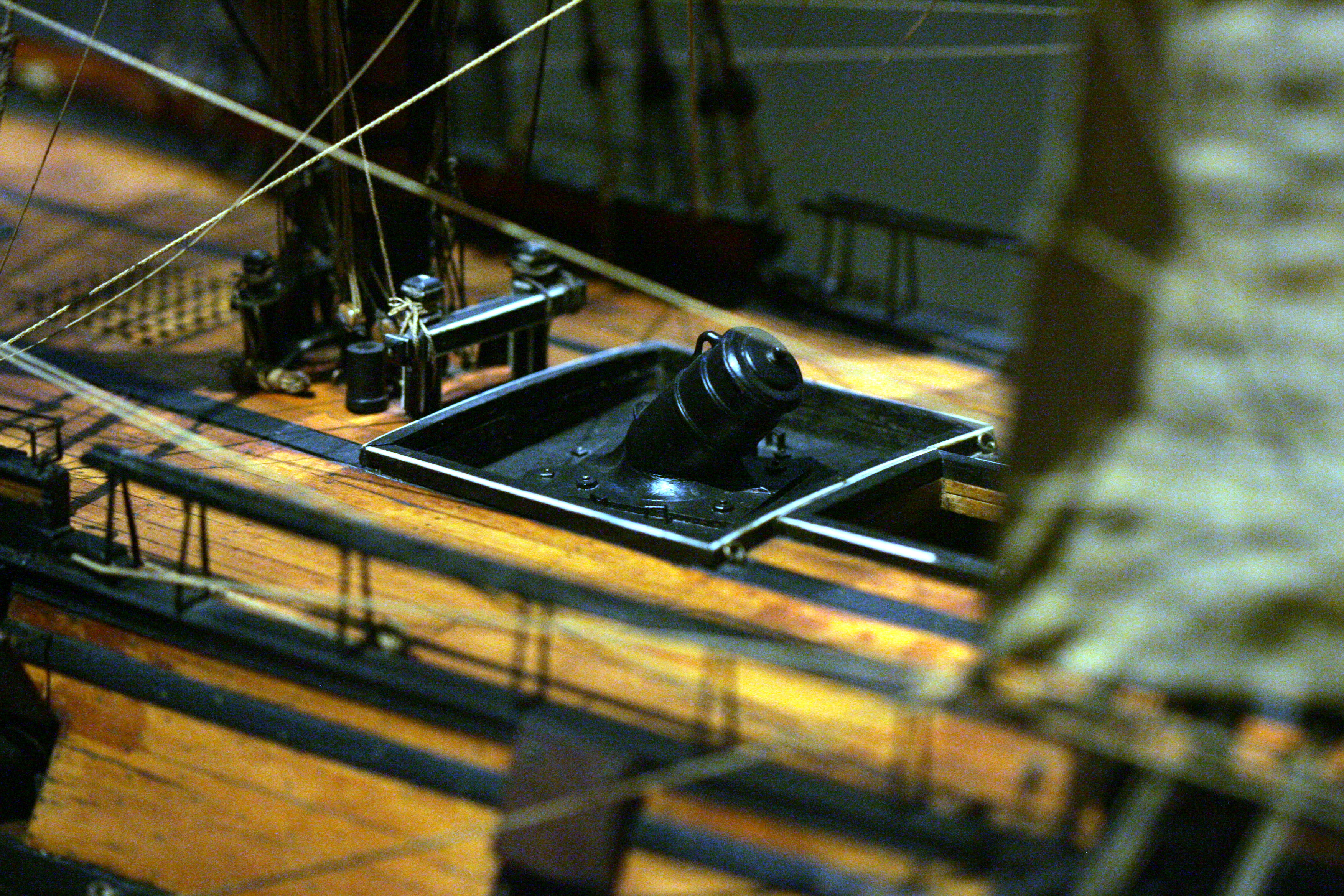 Artisten:Model workshop of Paris, circa 1815Description 1/36 scale model of the bomb ship Foudroyante, built in Honfleur in 1794. Plans by Pierre ForfaitCurrent location Musée national de la MarineNative nameMusée national de la MarineLocationParisCoordinates48° 51′ 43.20″ N, 2° 17′ 15.0″ EEstablished1827Website Accession numberMnM 17 MG 18Source/PhotographerRama 1/36 scale model of the bomb ship Foudroyante, built in Honfleur in 1794. Plans by Pierre Forfait